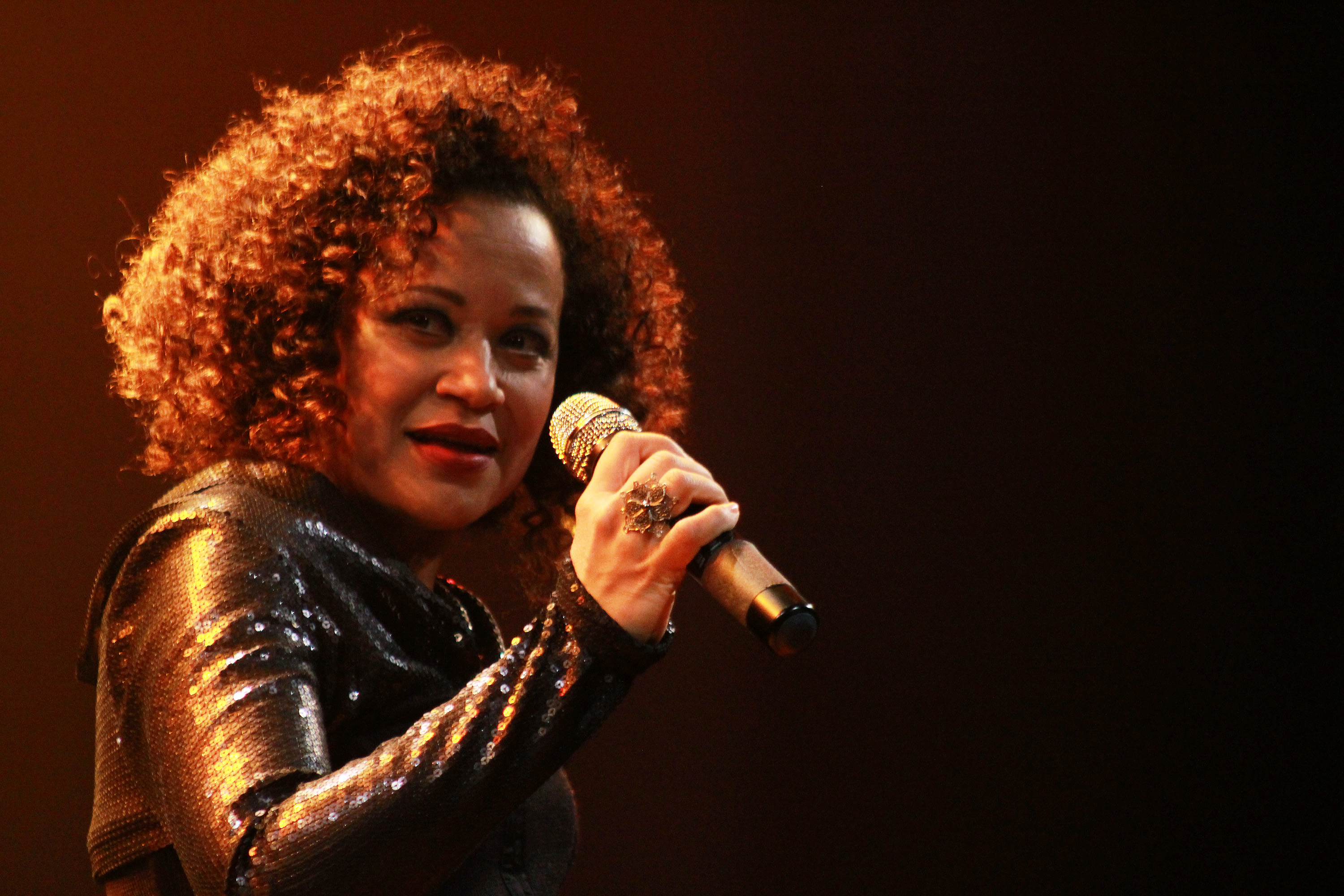 Virgínia Rosa, Brazilian singer and actress.